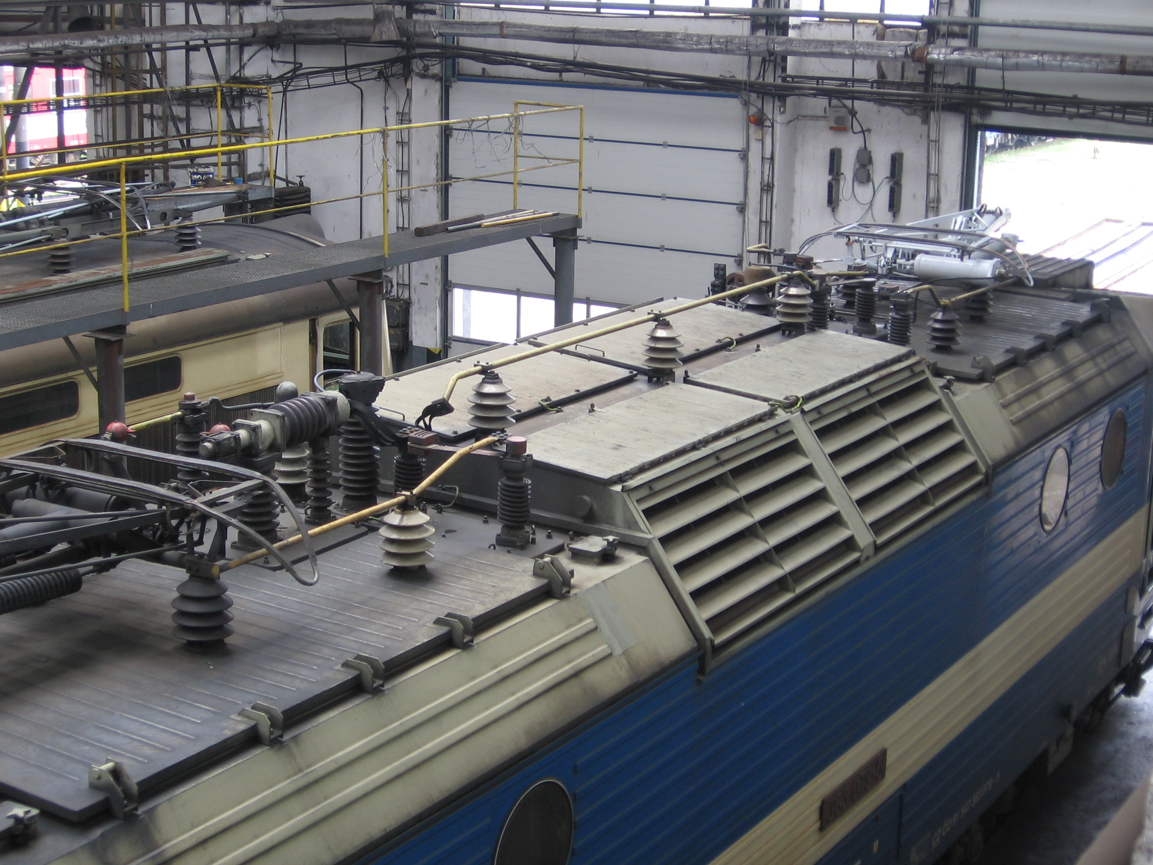 Roof of the double-voltage ČD locomotive 363.079